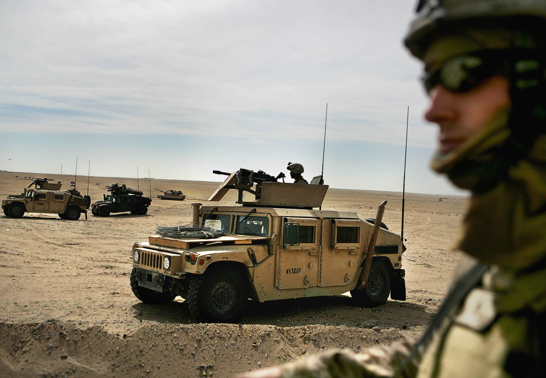 Weapons Company Marines align their vehicles after assaulting simulated enemy positions at a military range here Jan. 27 during a bilateral training exercise conducted by Kuwaitis and the 11th Marine Expeditionary Unit.